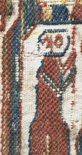 Detail from Skogbonaden.